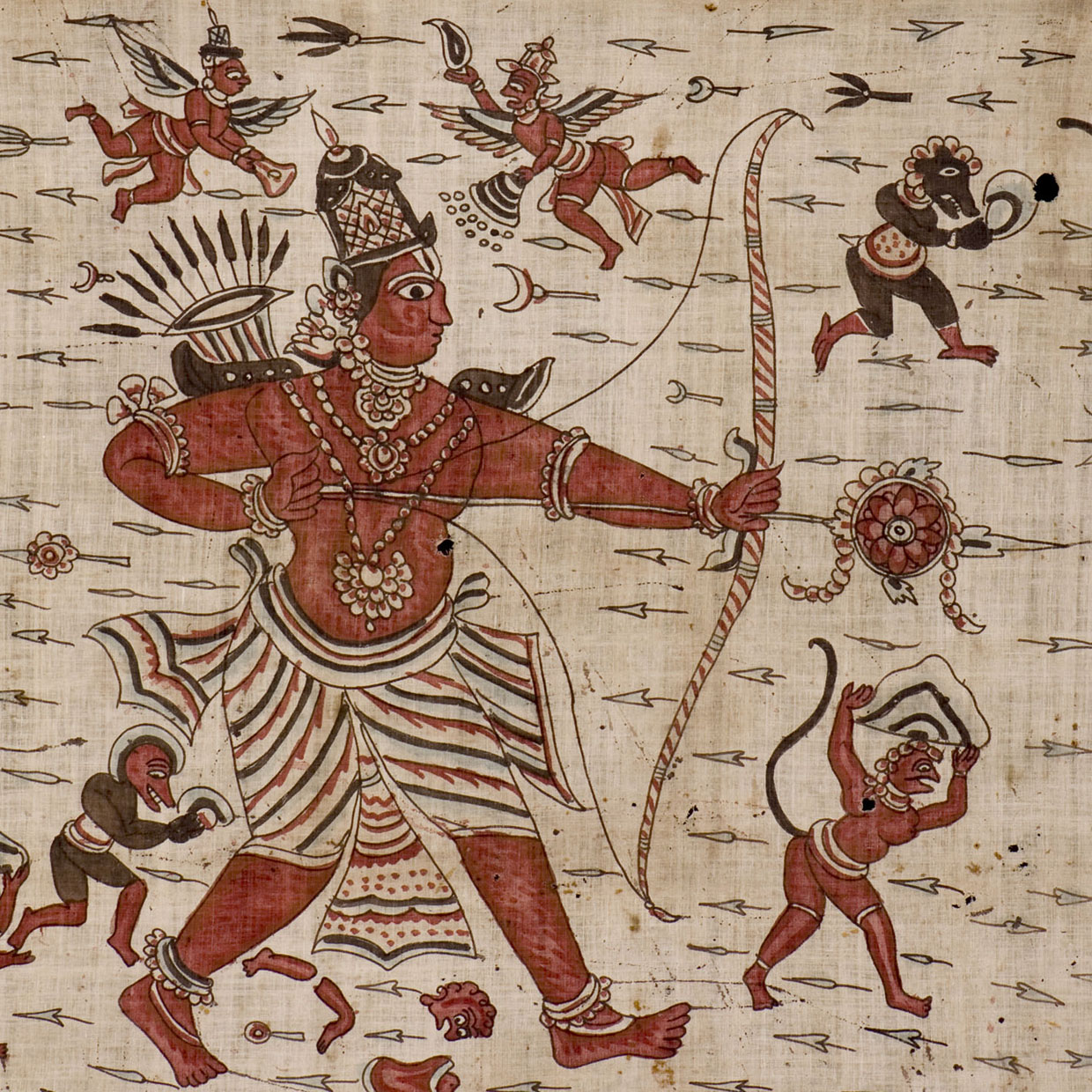 Painted cloth depicting a scene from the Ramayana